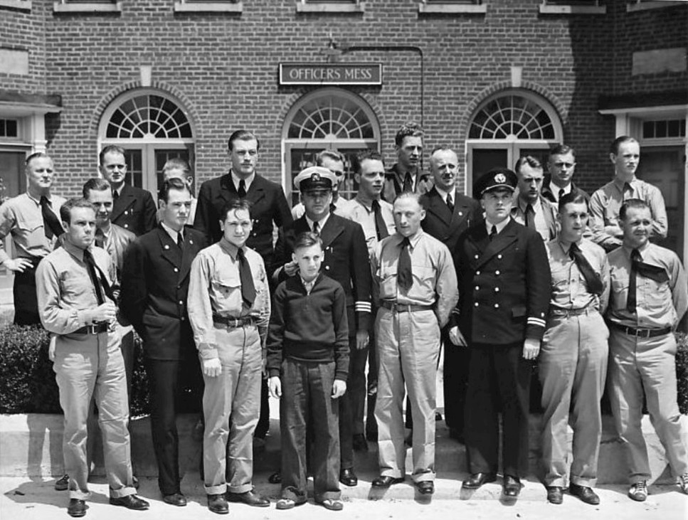 Some of the surviving Hindenburg officers and crew gathered at Lakehurst Air Station three days after the disaster. Some of the men are wearing US Marine uniforms because their belongings were destroyed in the fire; many had to shed their burning clothing when they escaped from the airship. Unfortunately, the news story did not identify everyone shown in the photo; those who were identified are marked with notations.